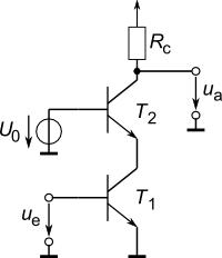 Schematic of Kaskode circuit with npn bipolar transistors.